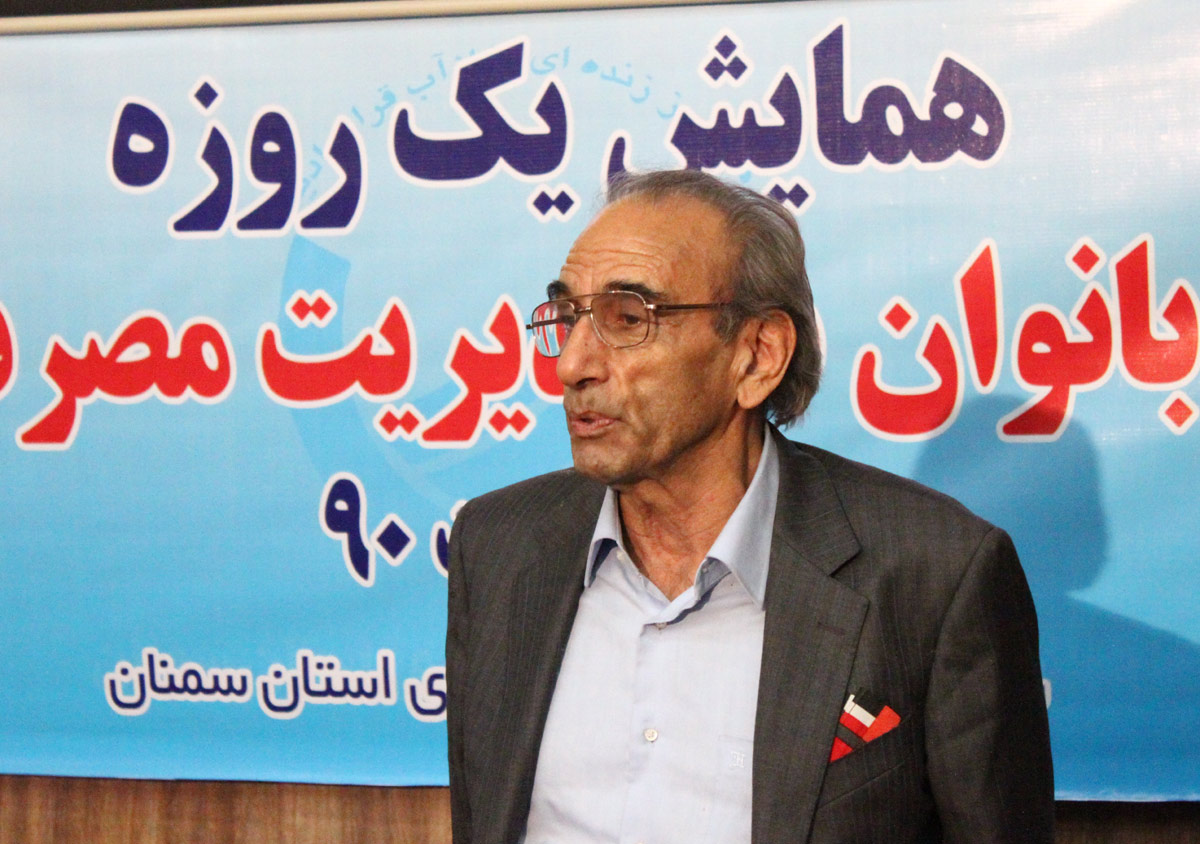 Professor Parviz Kardavani in Semnan